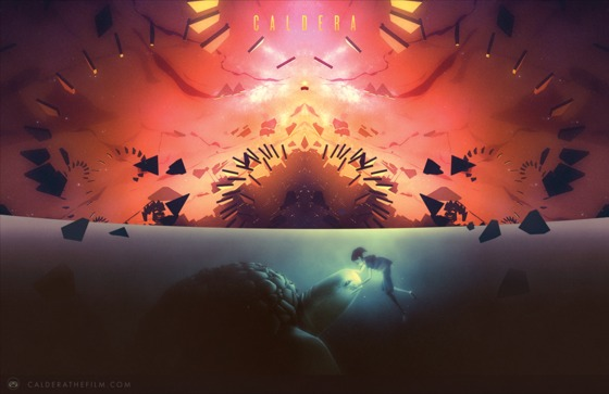 Official poster artwork for Caldera (film)